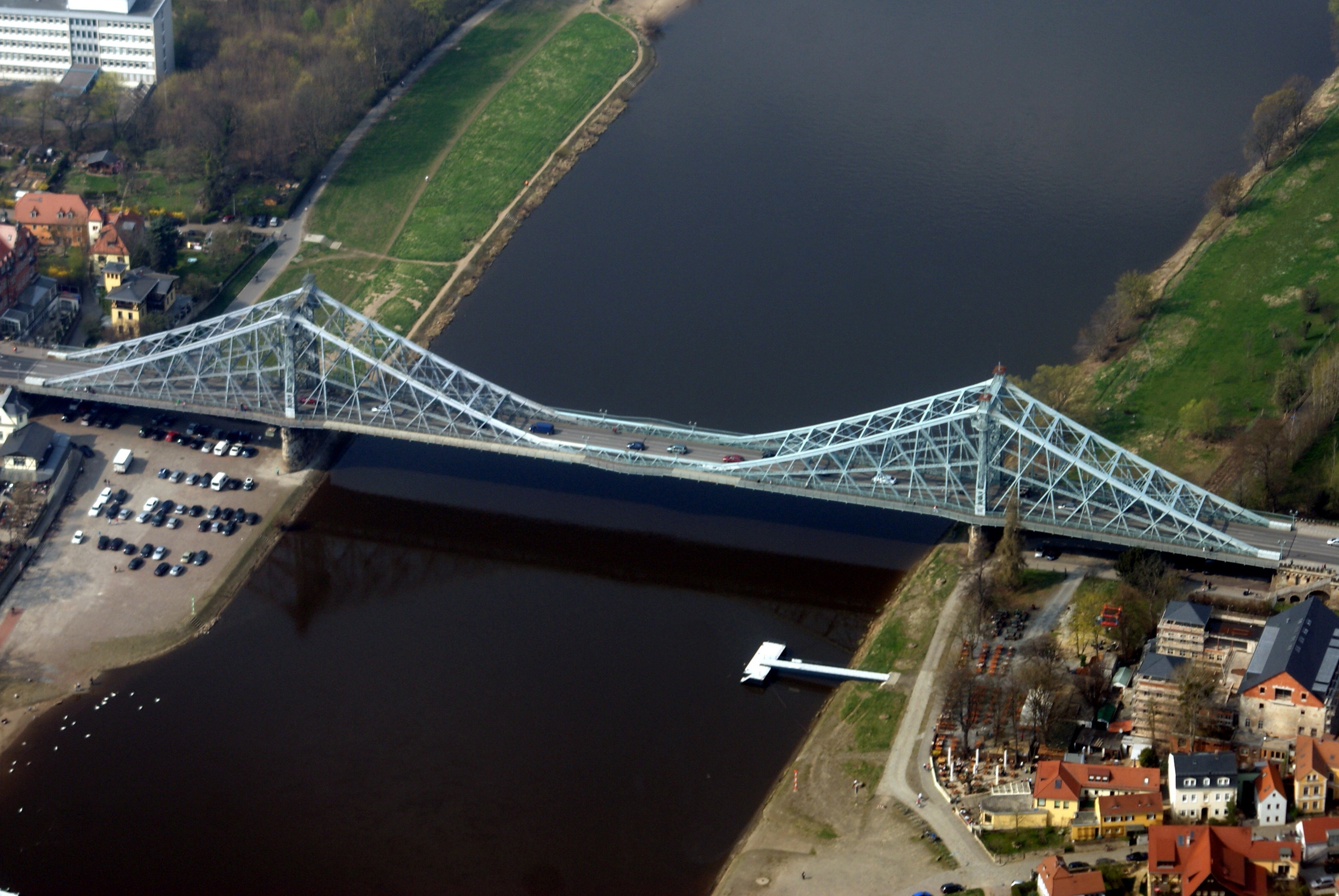 Aerial View: Blue Wonder Dresden from South-East